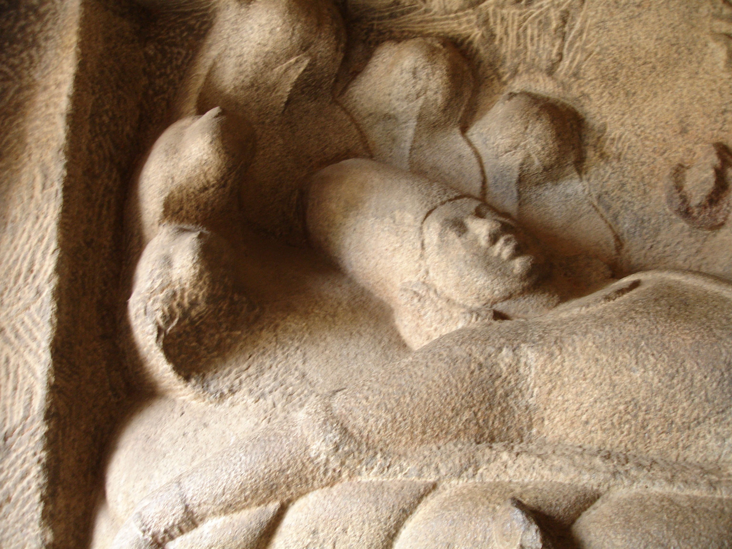 Vishnu in repose in the Mahishasuramardini Cave, Mahabalipuram